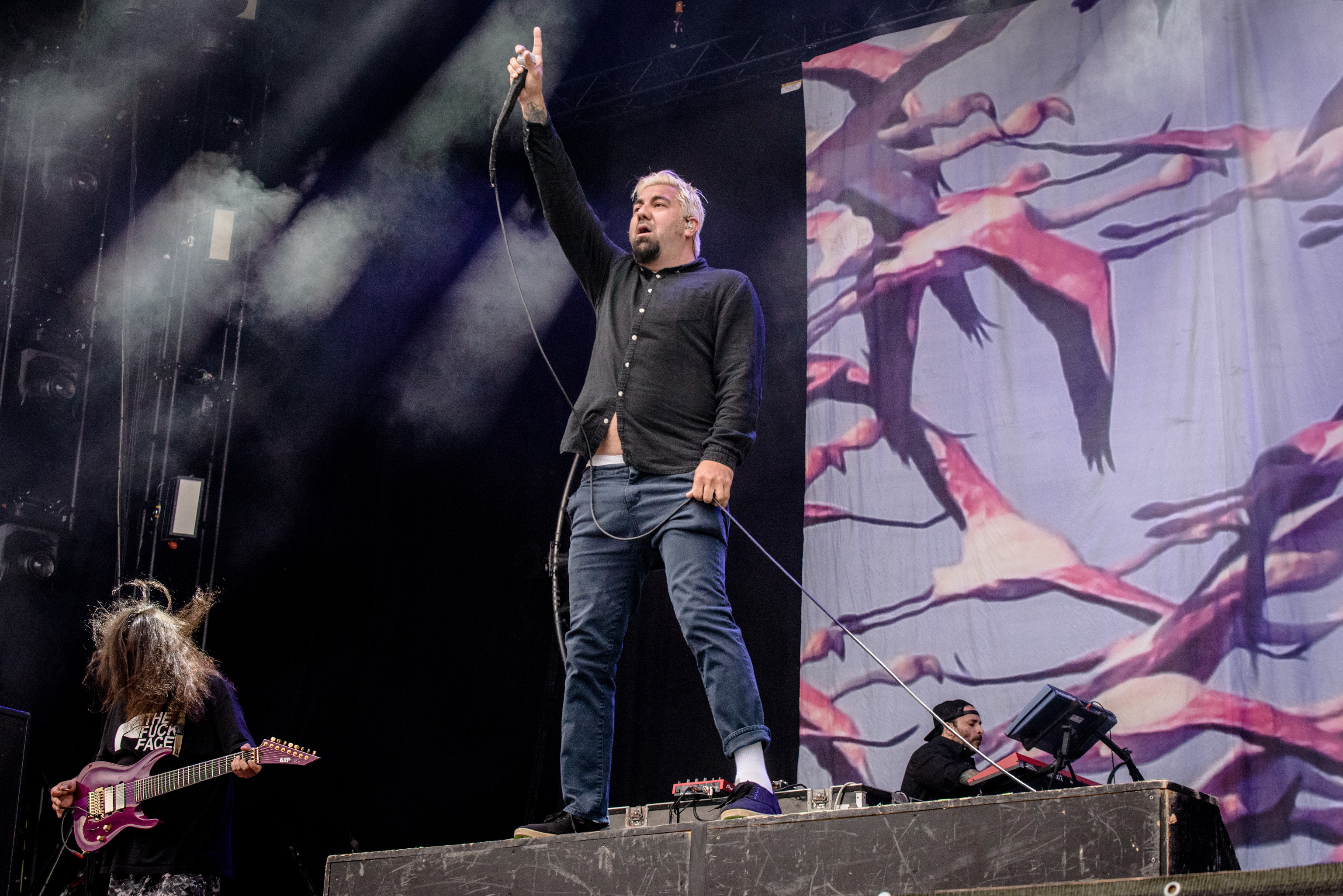 Deftones @ Rock im Park 2016